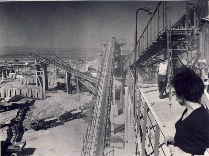 Autoclaved aerated concrete walls factory in Buzău, Romania